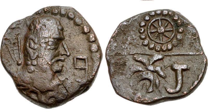 Toramana. Alchon Huns. Circa 490-515. Lot of five Æ. Mint in the Punjab. All coins: Bareheaded bust right, set on floral design, ribbon at shoulder; to right, “bra” in Brāhmī / Chakra; in exergue, “Tora” in Brahmi.